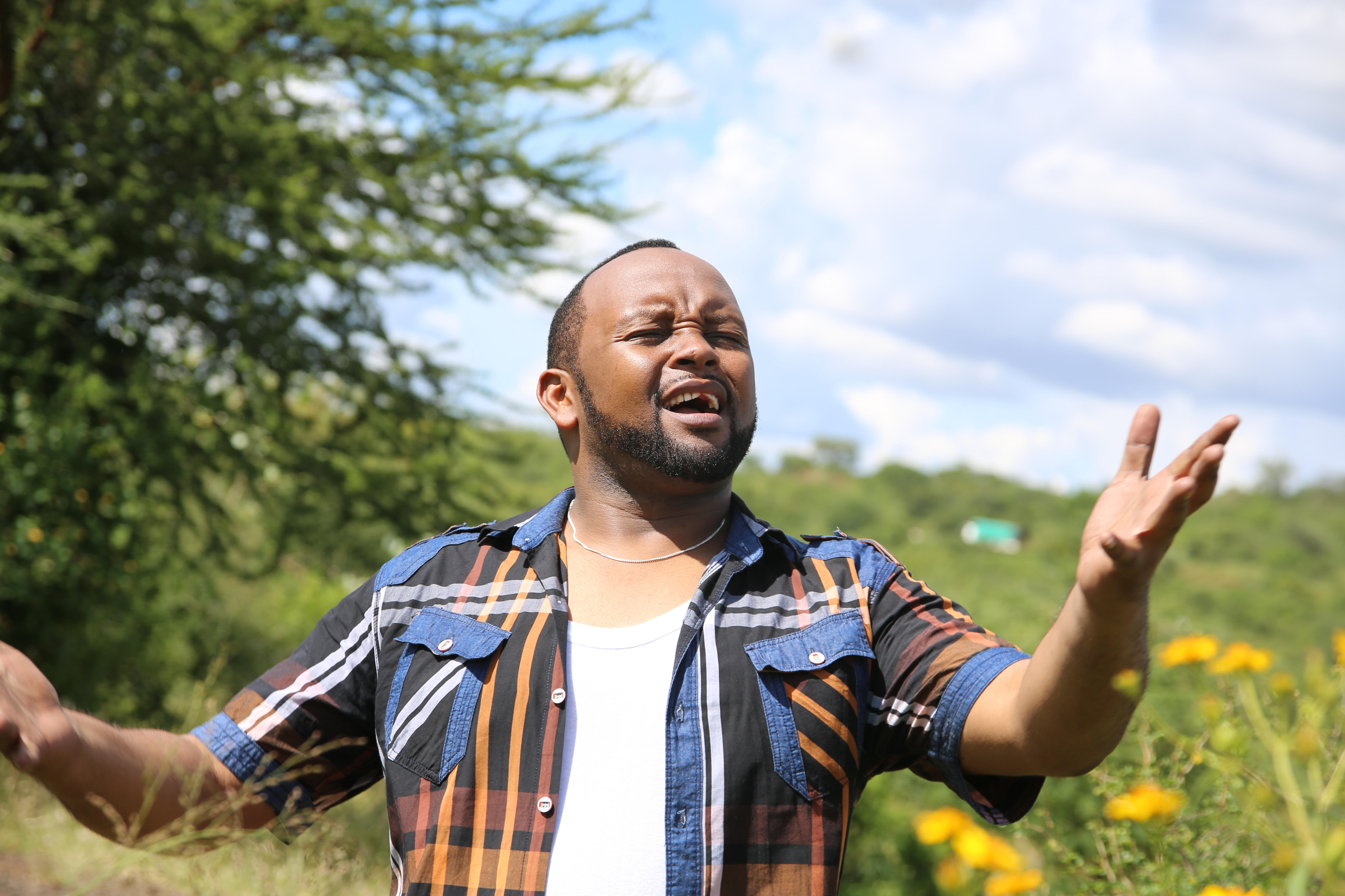 Mbuvi is a Kenyan Gospel Musician